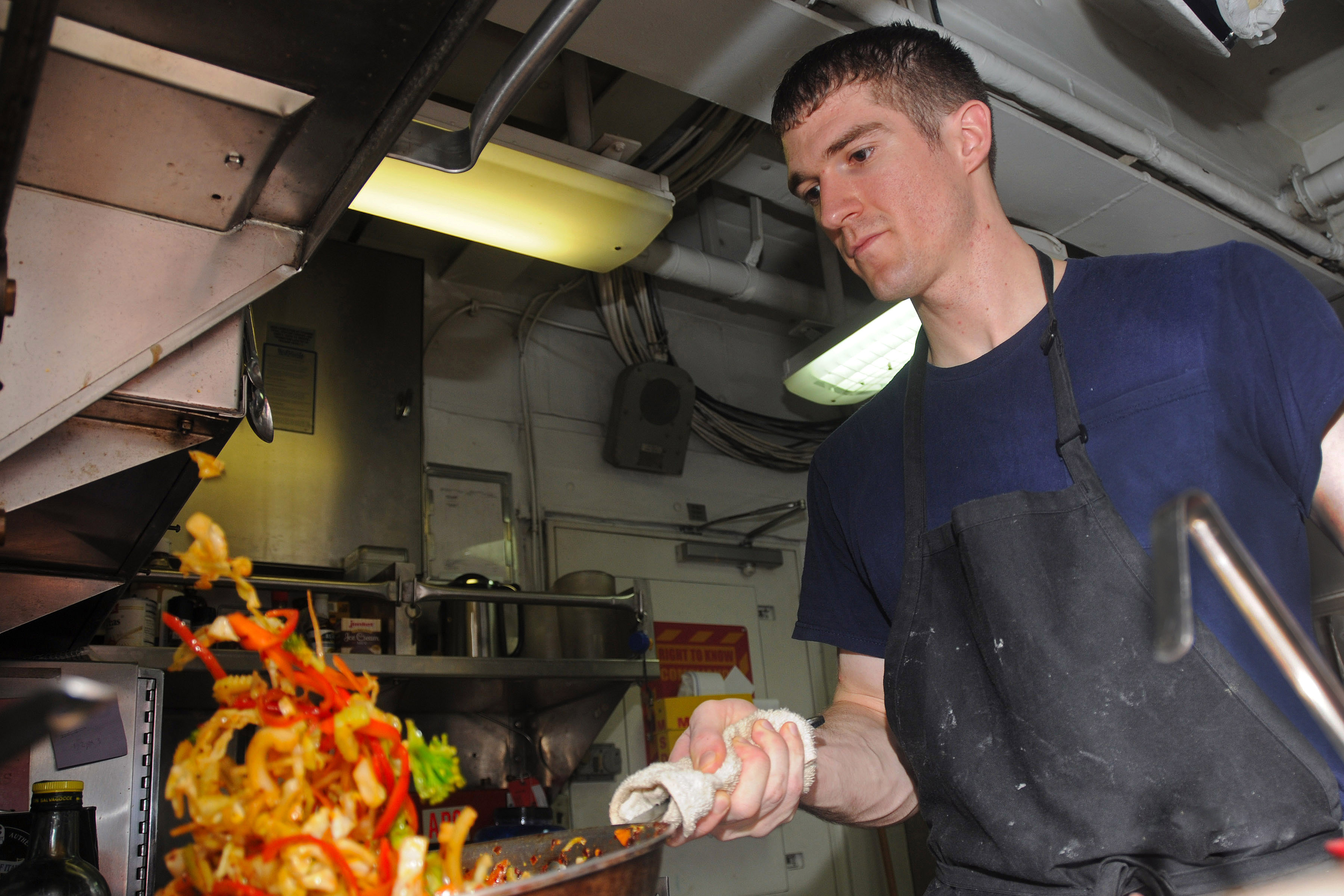 U.S. 5TH FLEET AREA OF RESPONSIBILITY (June 10, 2010) Culinary Specialist 3rd Class Nicholas Roby, from Louisville, Ky., tosses sautéed vegetables in the commanding officer's galley aboard the amphibious assault ship USS Nassau (LHA 4). Nassau is the command platform for the Nassau Amphibious Ready Group supporting maritime security operations and theater security cooperation operations in the U.S. 5th Fleet area of responsibility. (U.S. Navy photo by Mass Communication Specialist Seaman Chris Williamson/Released)